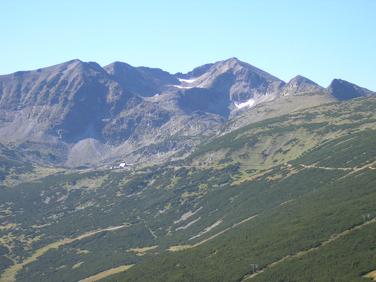 View towards Musala from Yastrebets